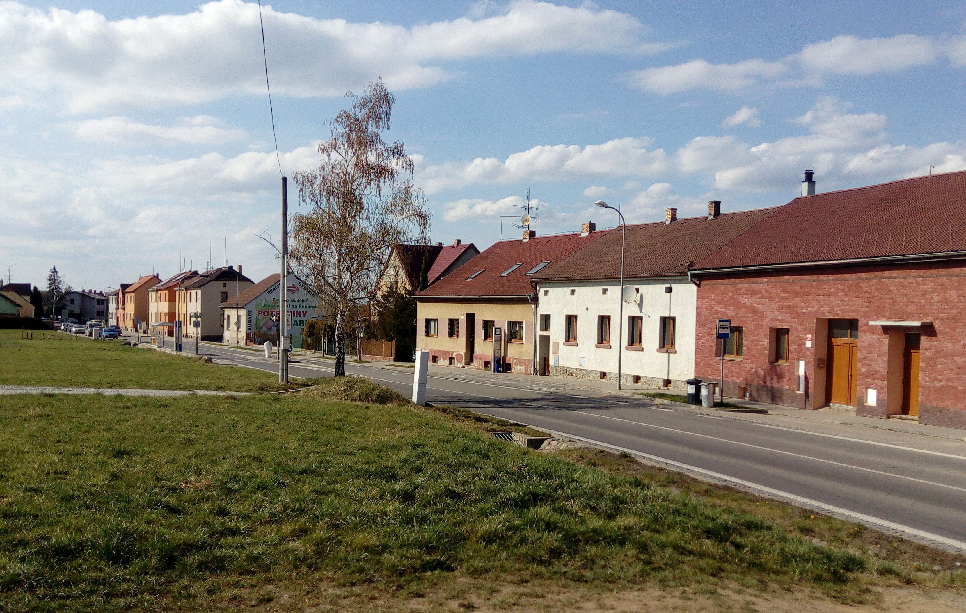 Ledenická, a street in Pohůrka, part of České Budějovice, South Bohemian Region, Czech Republic